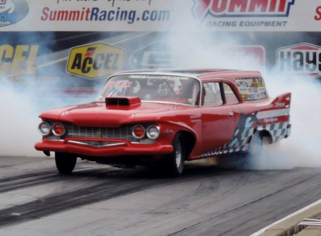 Texas Whale is a popular Nostalgia Super Stock drag car driven by 2014 NMCA Champion in NSS Dave Schultz